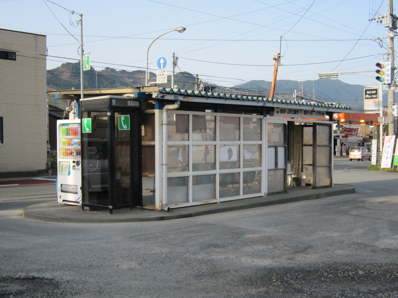 Ukiha Bus Stop of Nishitetsu Bus Kurume in Ukiha City, Fukuoka Prefecture, Japan